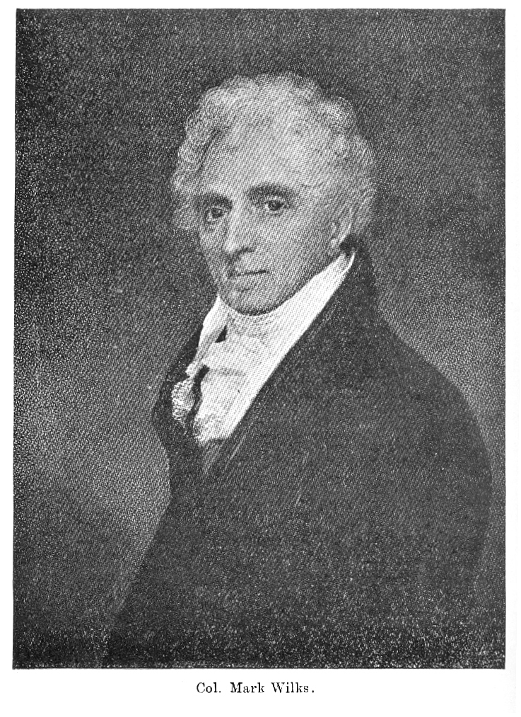 Photograph of contemporary portrait (ca. 1810) of Col. Mark Wilks. Scanned and uploaded by Fowler&fowler«Talk» 17:36, 8 February 2009 (UTC)